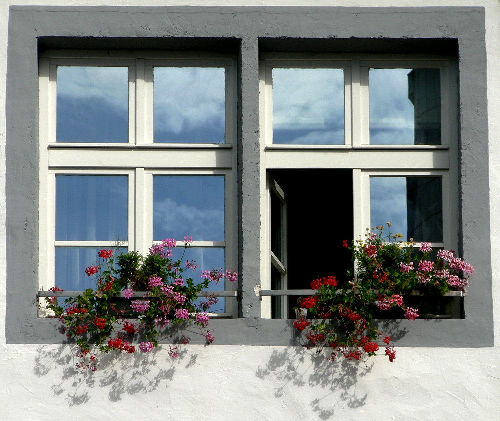 Ursuline convent (Uršulinska cerkev Sv. Trojice) at Ljubljana. Window of the convent building.